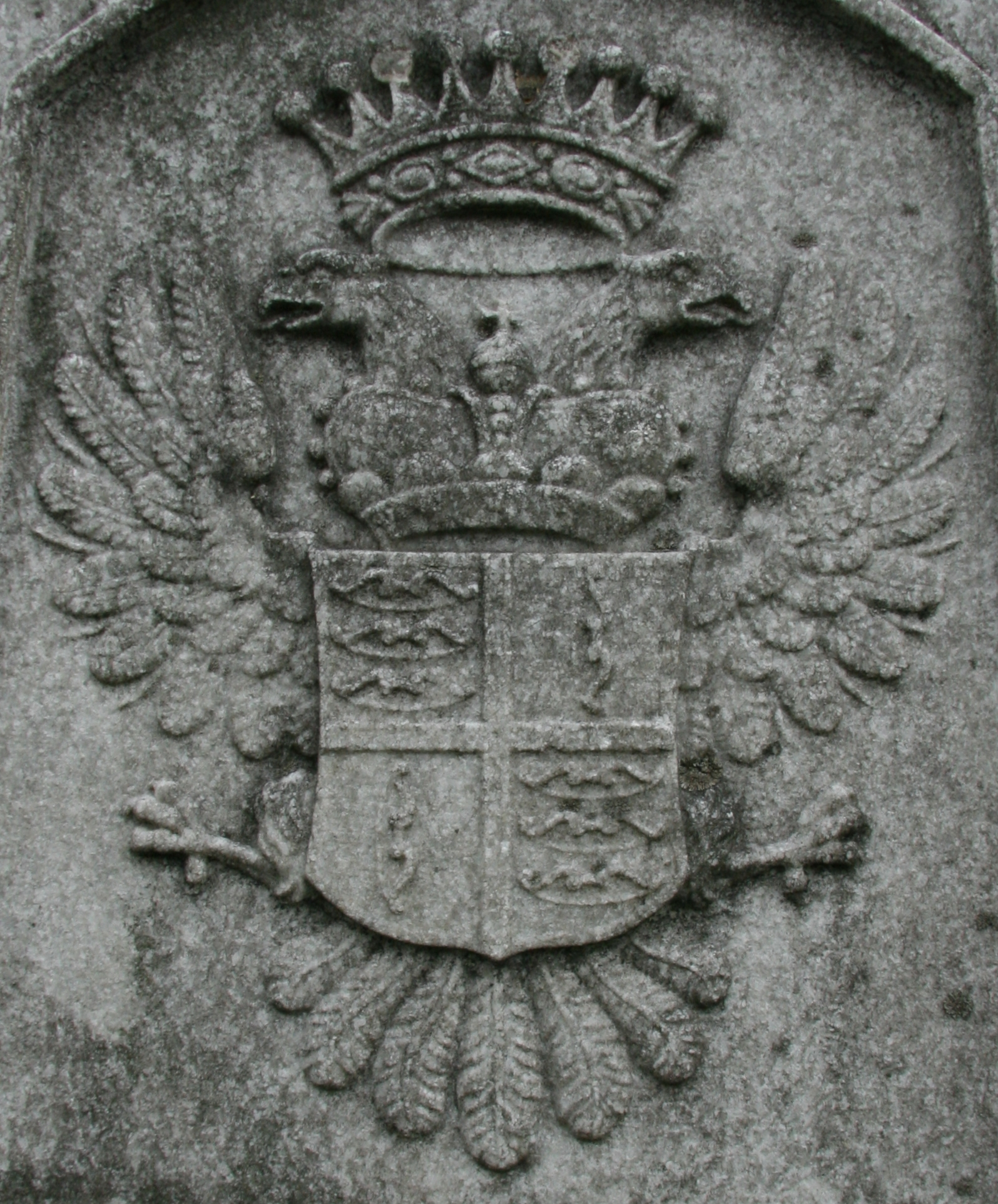 Gravestone of Friedrich von Arco. Havířov, Karviná District, Moravian-Silesian Region, Czech Republic